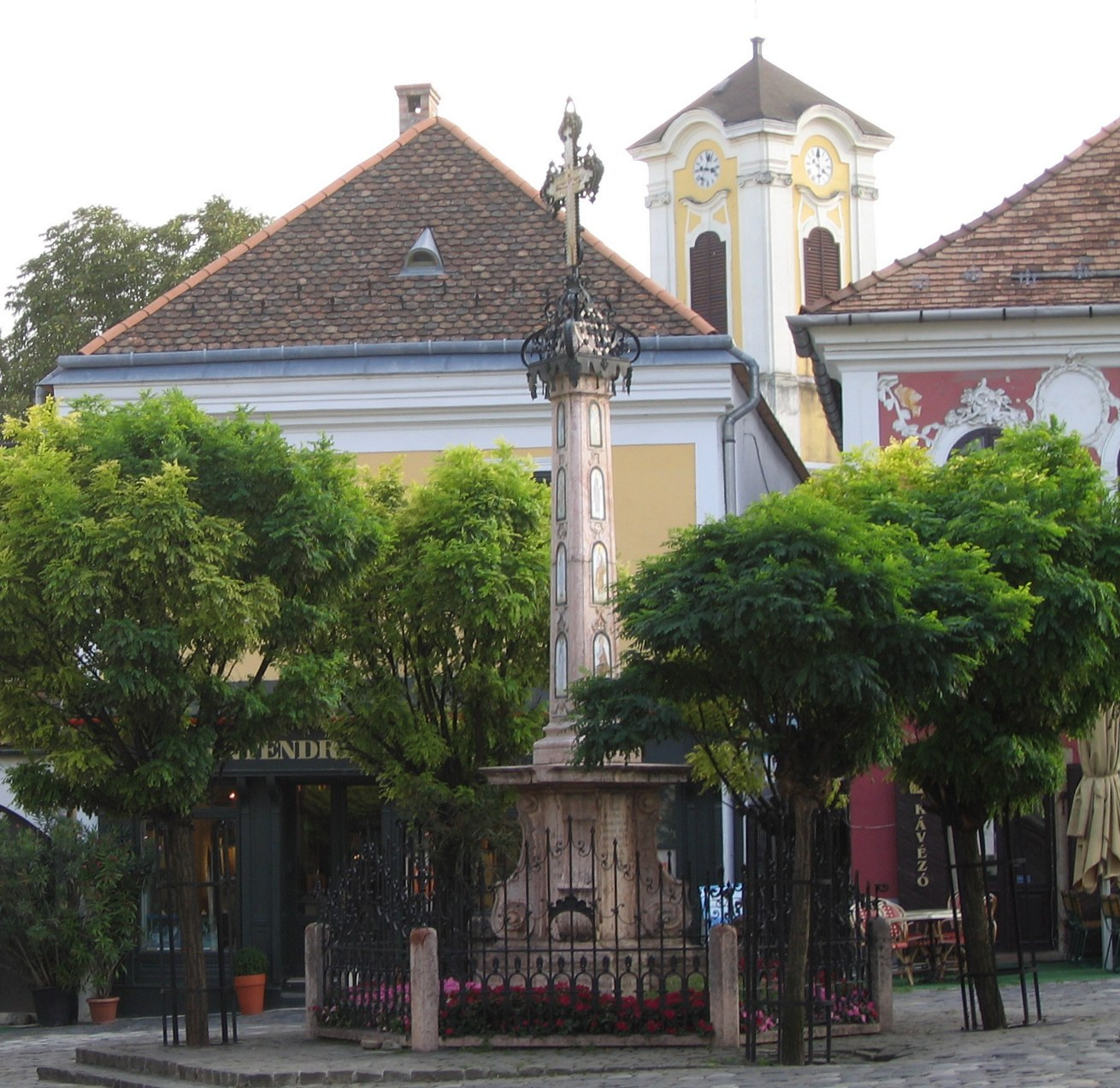 Szentendre, Hungary, Plague Column on the main square Fö tér